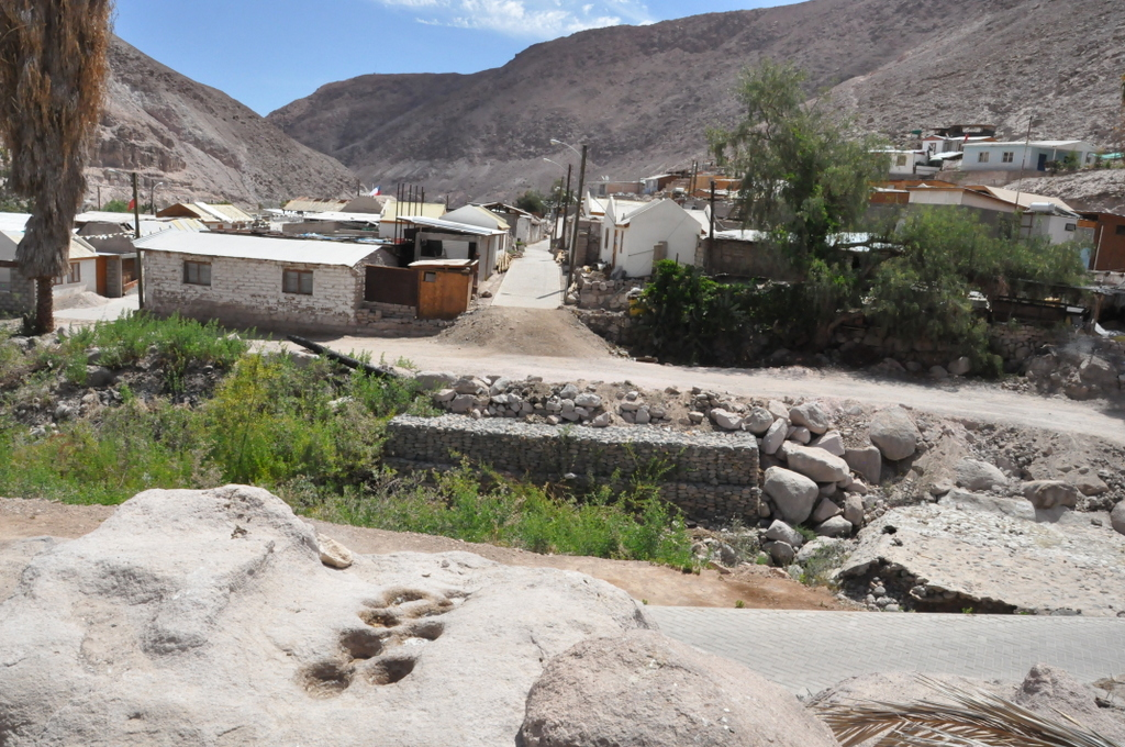 Guanacagua village, commune of Camarones, Chile